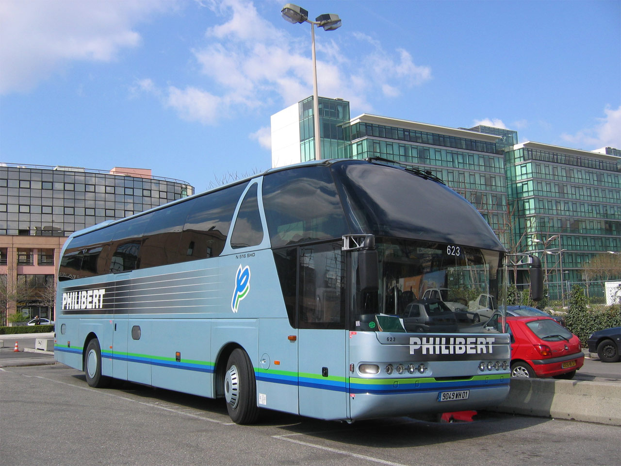 Neoplan N 516 SHD Starliner